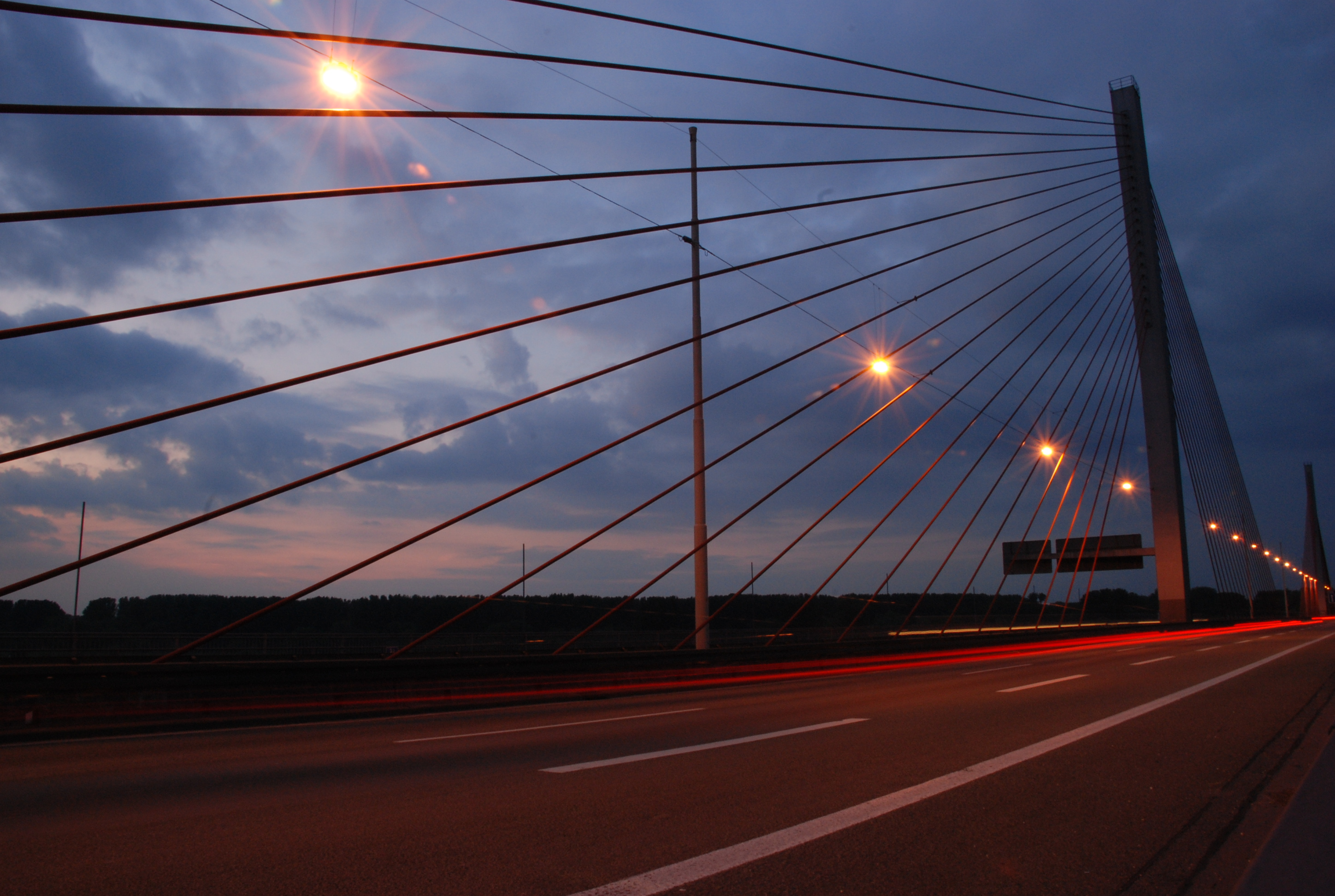 Friedrich-Ebert-Bridge in Bonn at night.